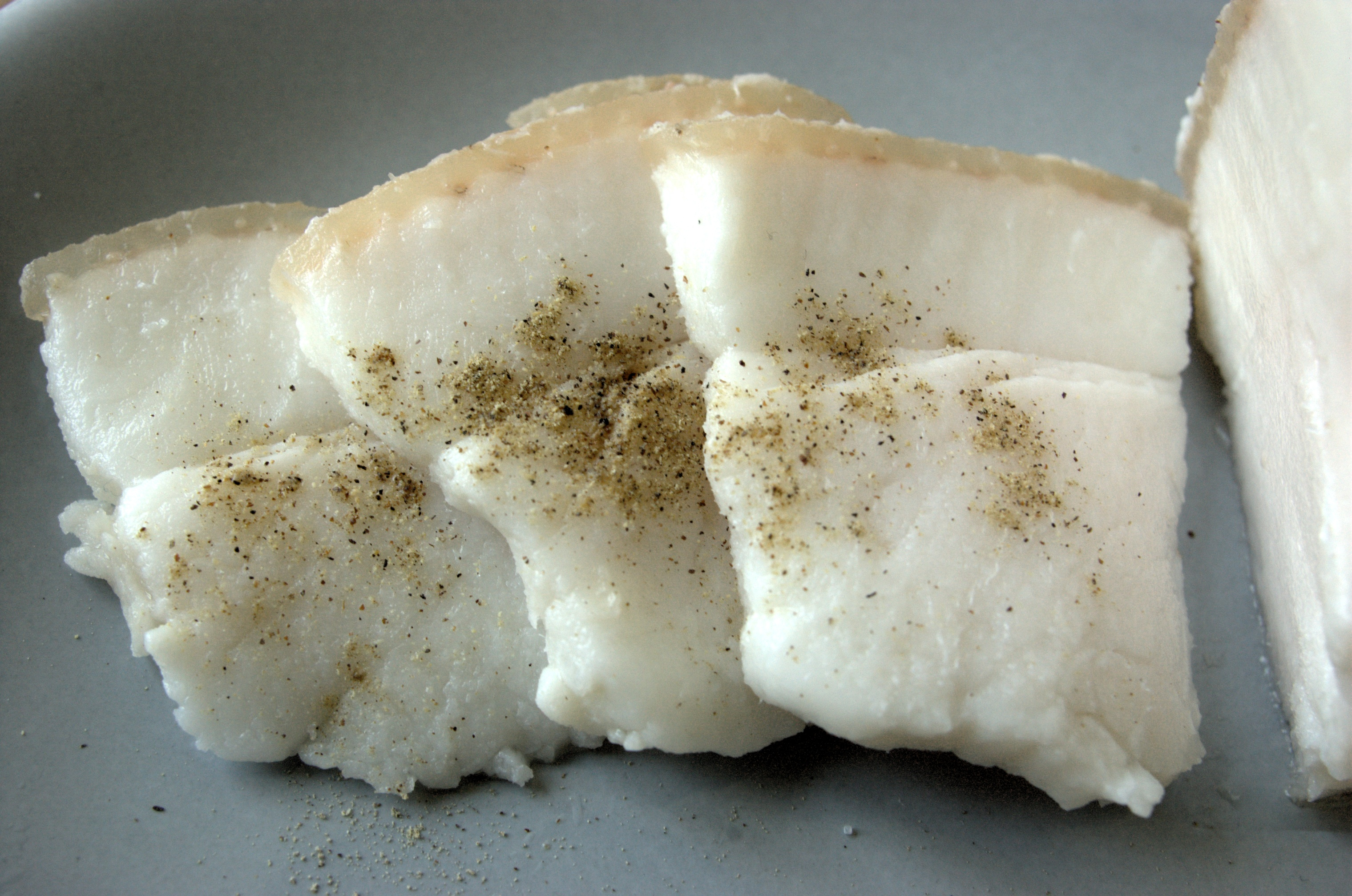 Salo with pepper, closeup